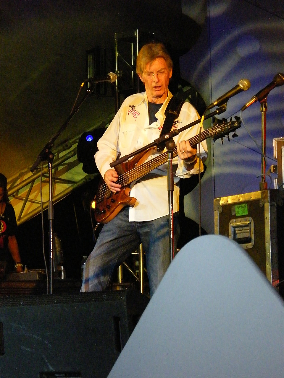 Phil Lesh of the Grateful Dead performing.